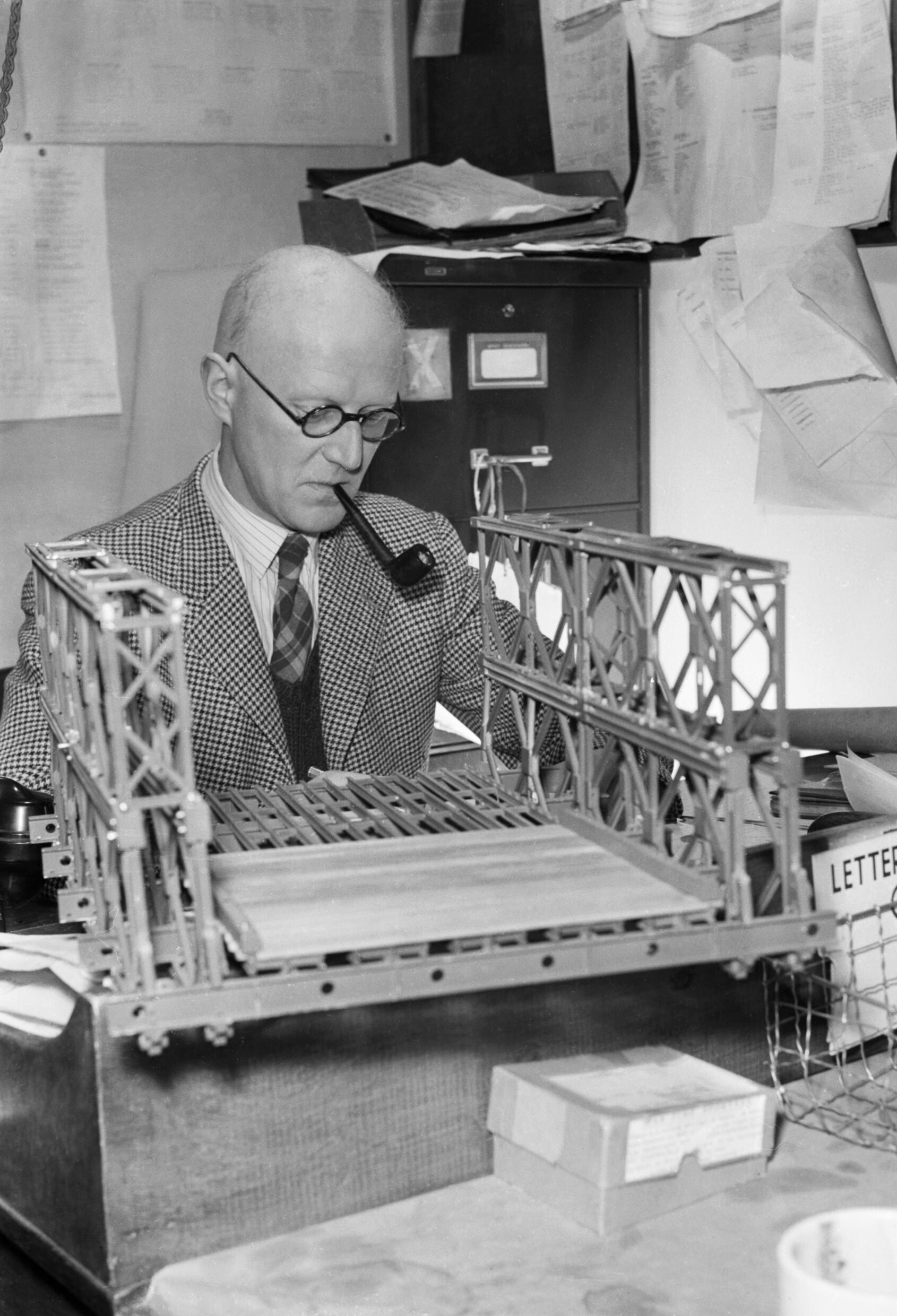 D C Bailey- Designer of the Bailey Bridge, UK, 1944 D C Bailey, pipe in mouth, sits in his office and examines the model of a Bailey bridge which is resting on his desk.